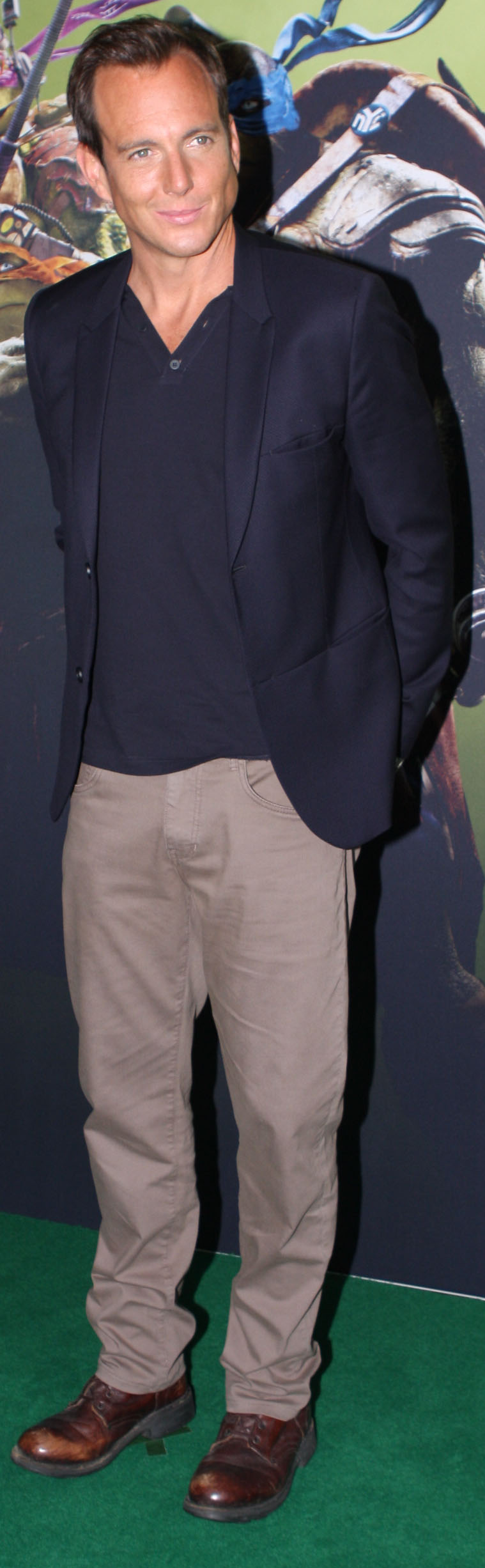 Teenage Mutant Ninja Turtles Special Event Screening - Megan Fox, Will Arnett